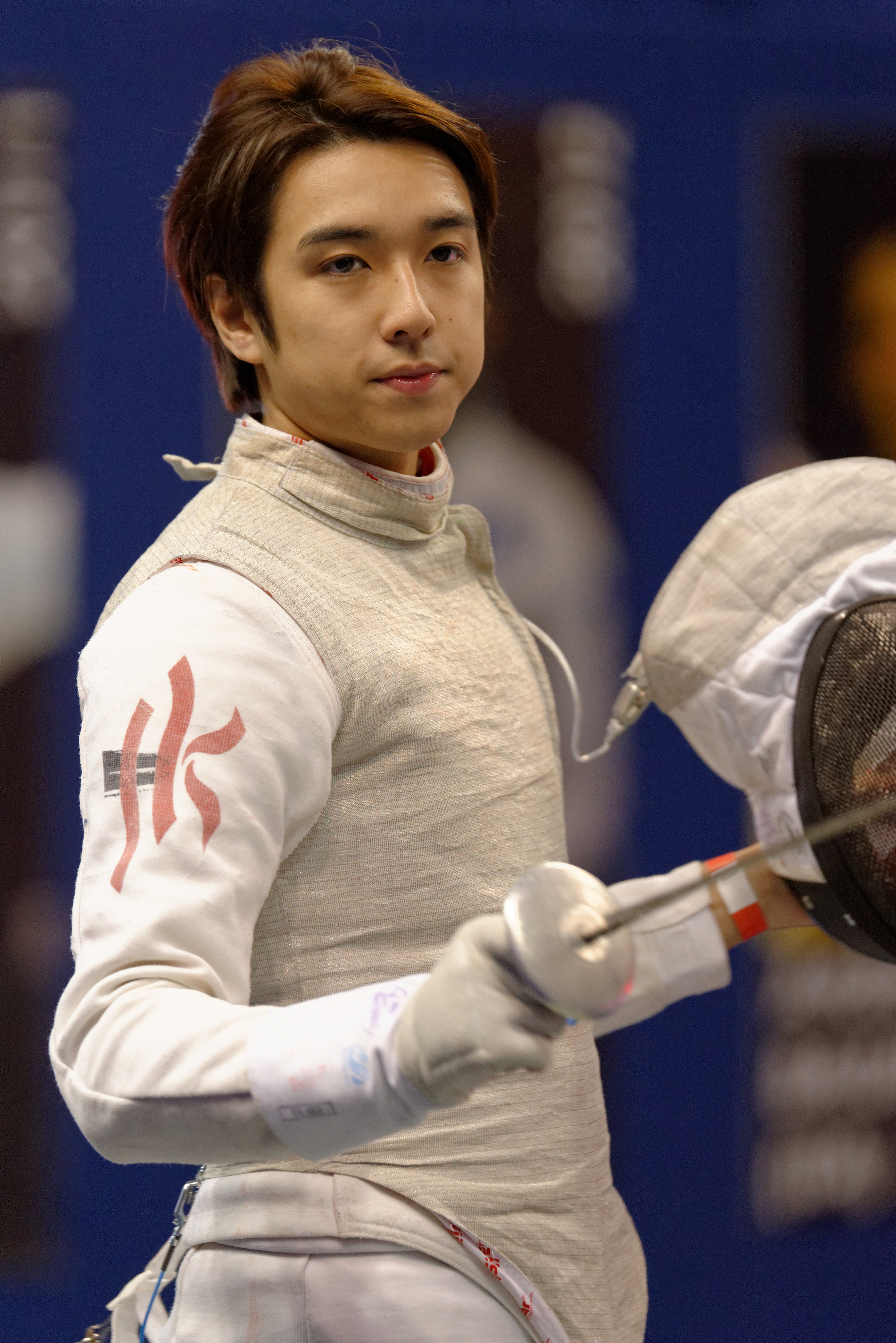 Hong Kong's Nicholas Edward Choi at the team event of the 2015 Challenge International de Paris, a men's foil World Cup competition.